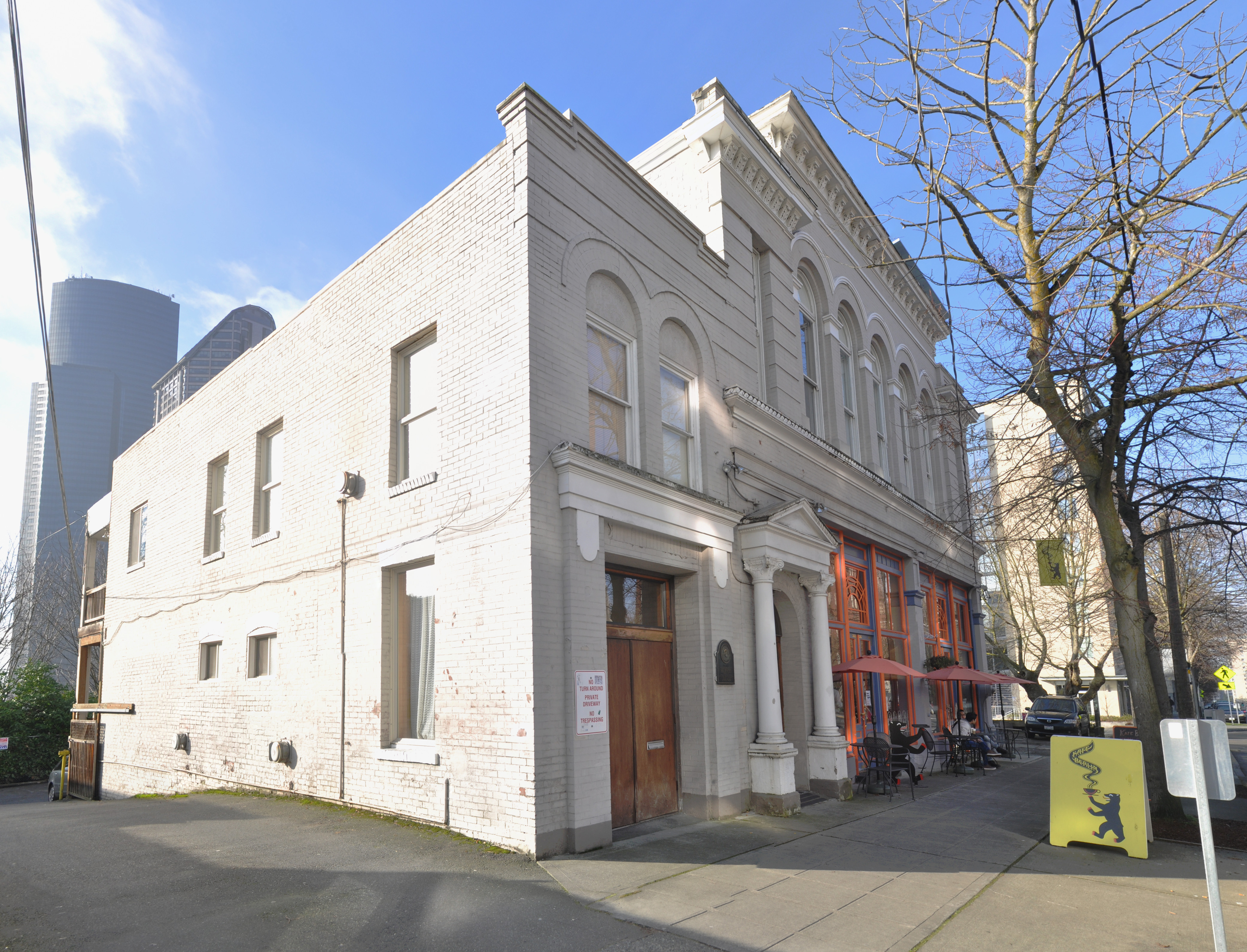 Former Assay Office, now Deutsches Haus (German Club) and the recently opened Kafe Berlin, 613 Ninth Avenue, First Hill, Seattle, Washington, USA. The building is a Seattle City landmark and is on the National Register of Historic Places, ID #72001271. This image is actually created from several photographs, using Hugin. This image was created with Hugin